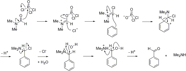 Mechanism of Vilsmeier-Haack formylation.Drawn using ChemDraw.